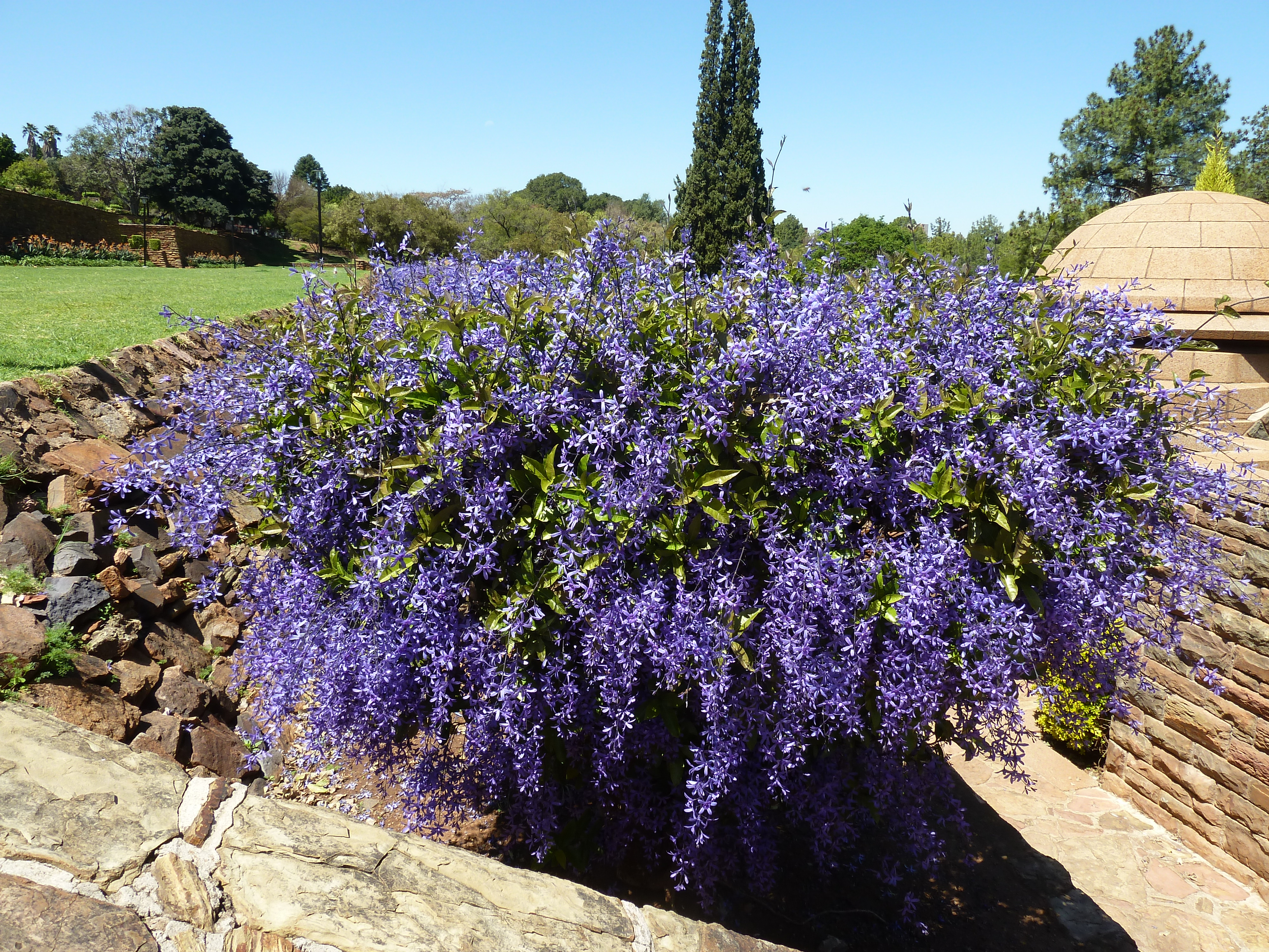 Petrea volubilis in the gardens of the Union Buildings, Pretoria